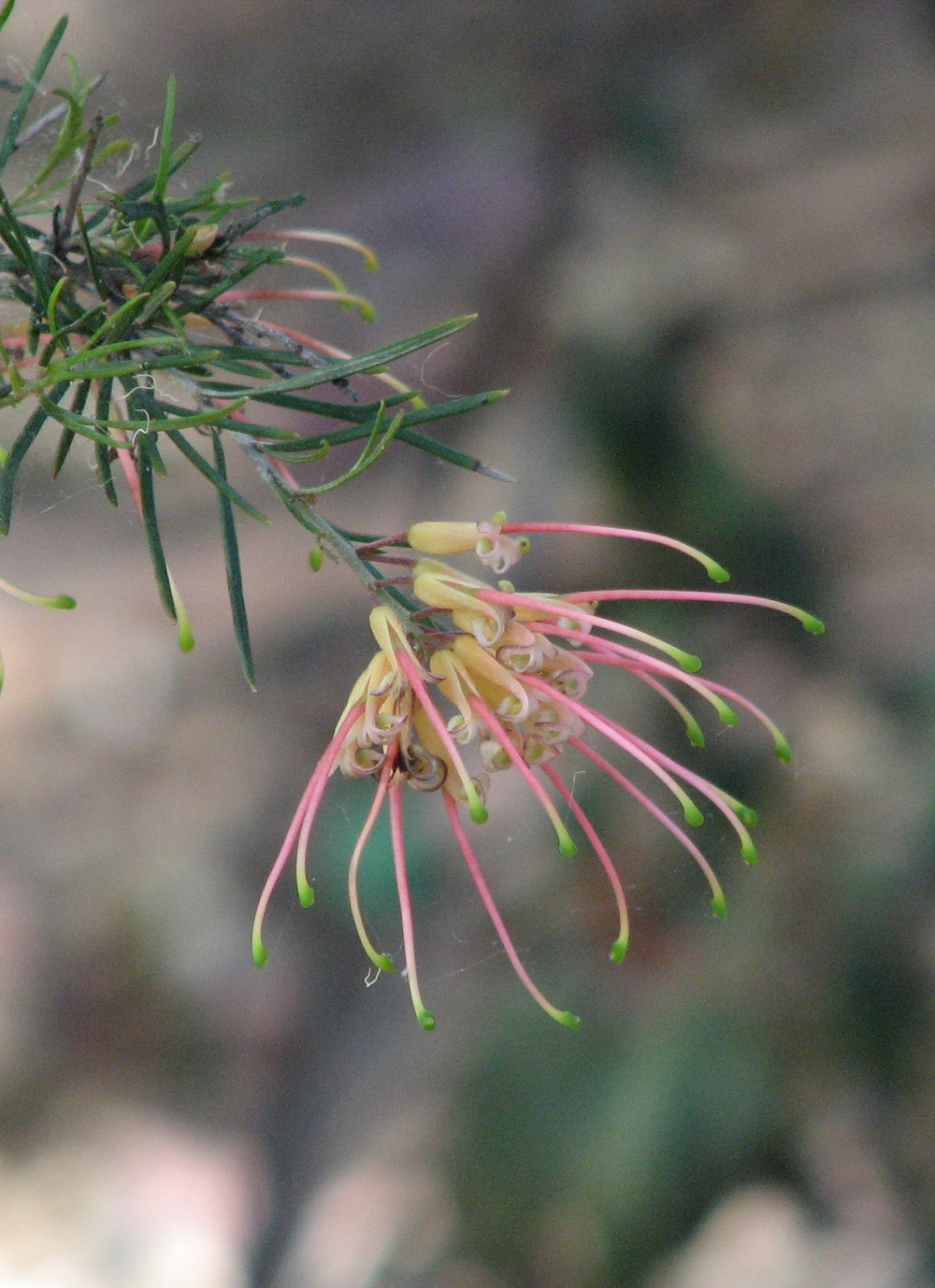 Grevillea × semperflorens (cultivated, labelled) Maranoa Gardens, Balwyn, Victoria, Australia